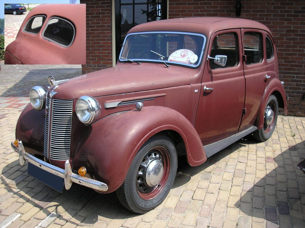 Austin Ten GS 1 Dutch registration states: First issued 1946-06-30, 4 cylinders, 940 kg net weight. --- Location: Near Goor, Netherlands